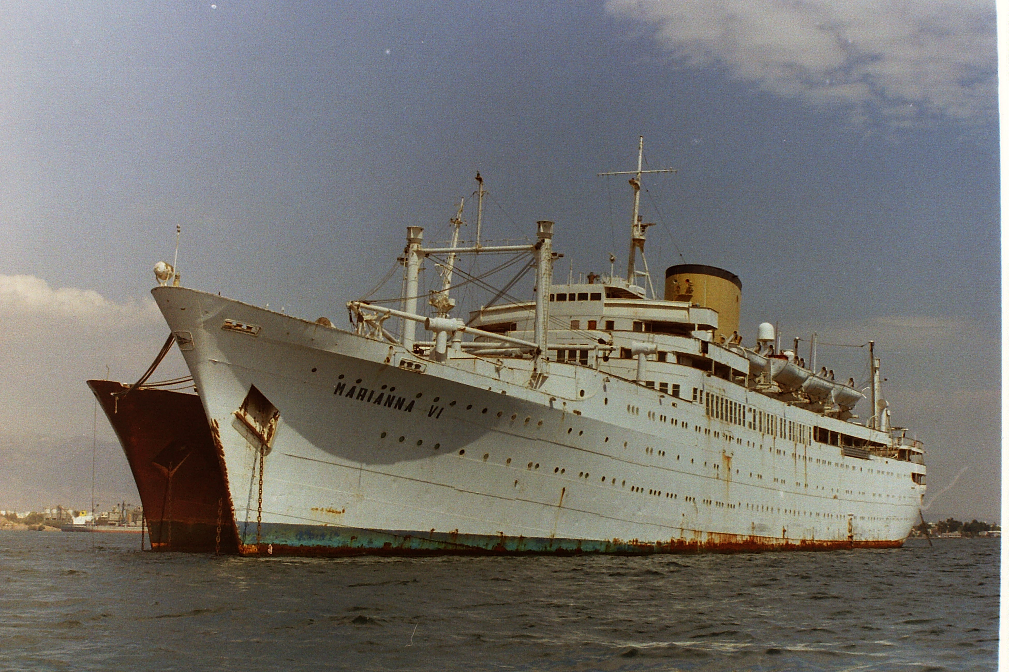 The cruise ship Marianna VI laid up in Eleusis in 2000.